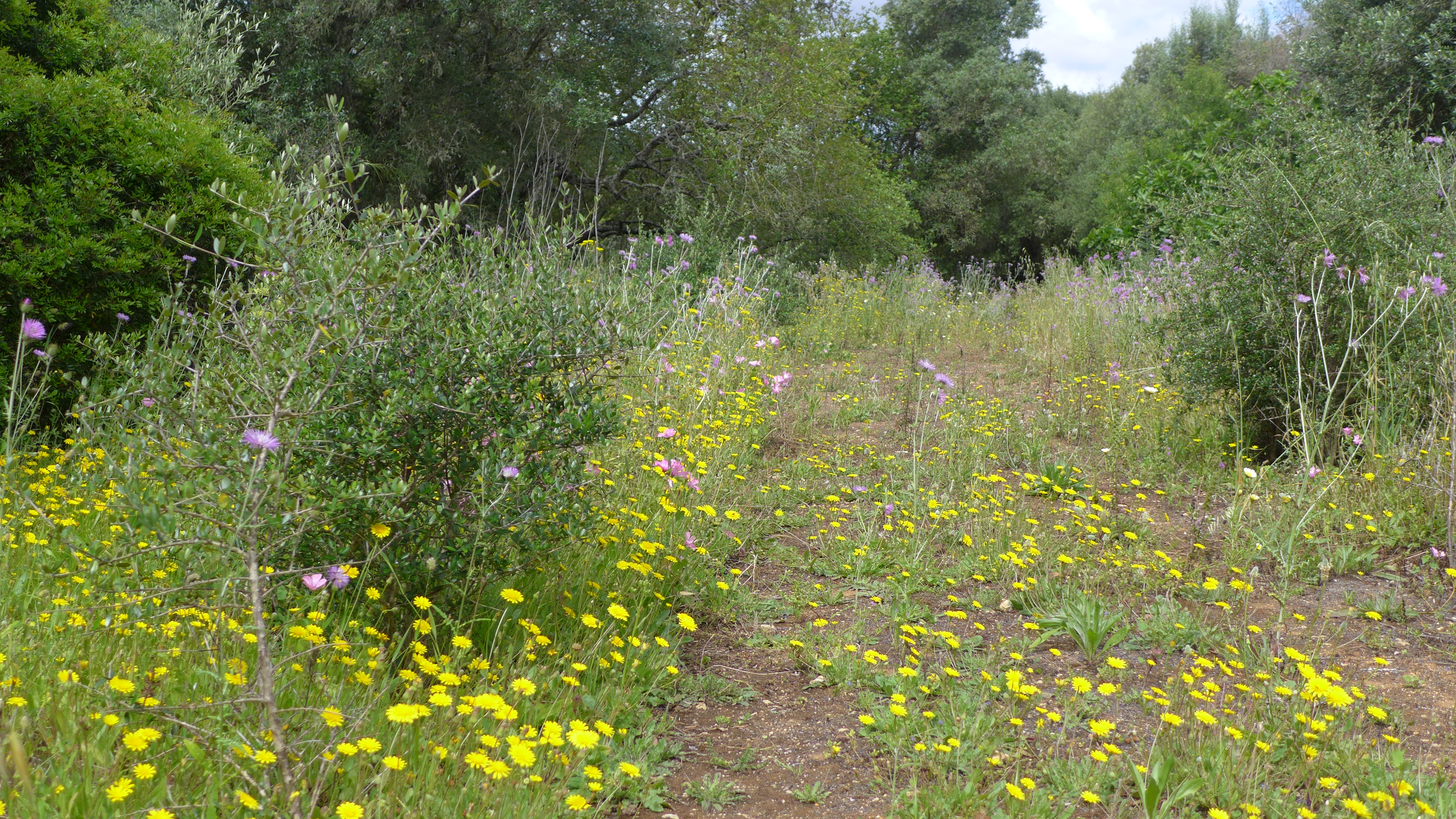 Ria de Alvor Nature Reserve, Algarve, Portugal May 2016. Trees. Ground flora - Anthemis tinctoria, Mantisalca salmantica.....